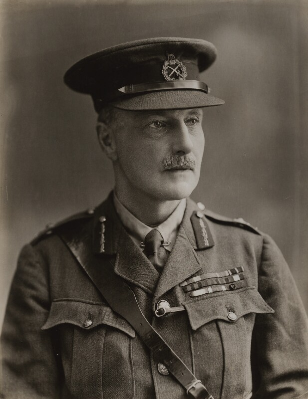 Sir Walter Campbell by Bassano Ltd, bromide print, 28 August 1918.